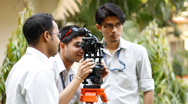 Civil Engineering Students at Assam Don Bosco University in the State of Assam, India.